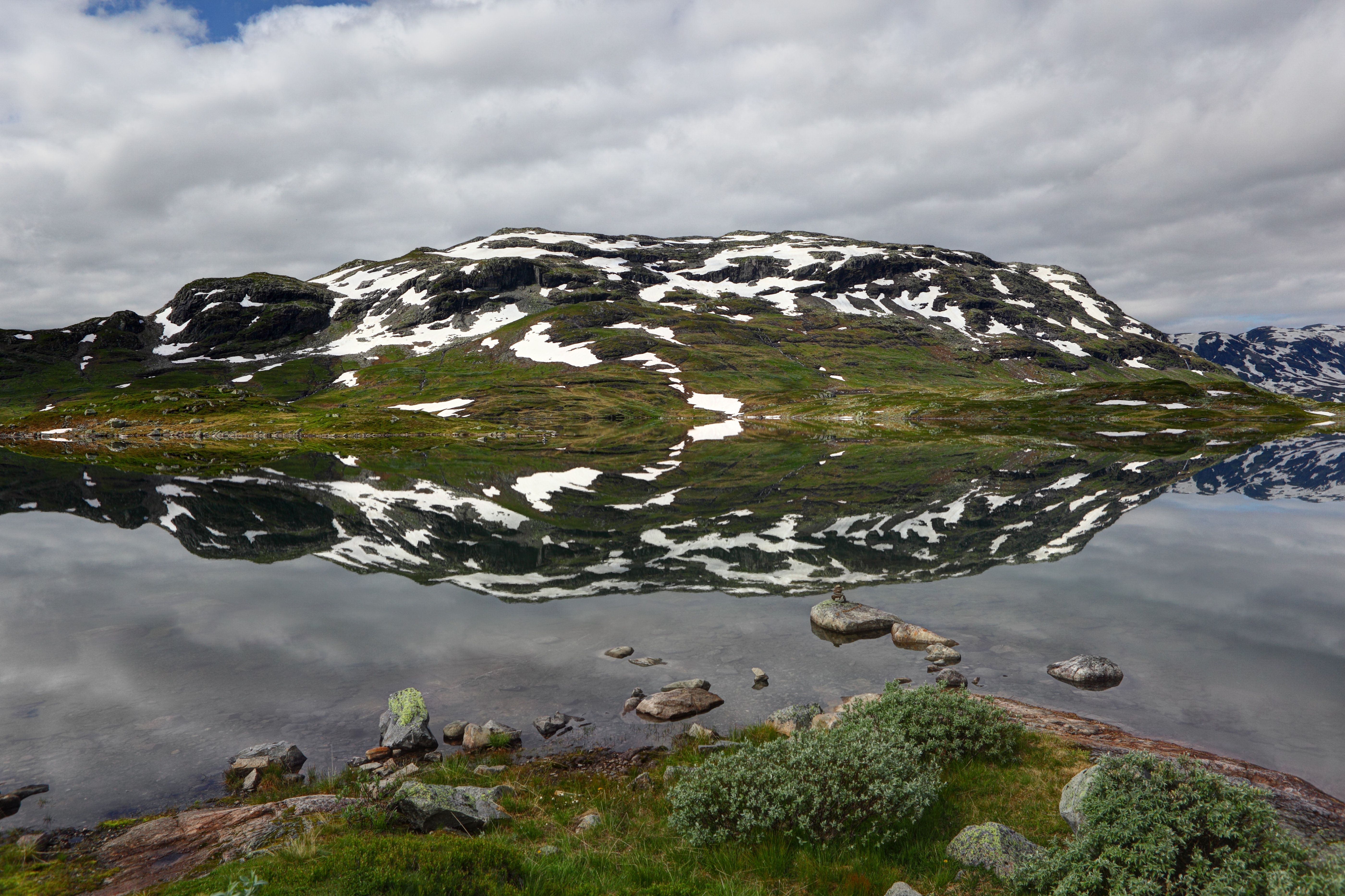 A view of the lake Ståvatn, Telemark county in Norway.